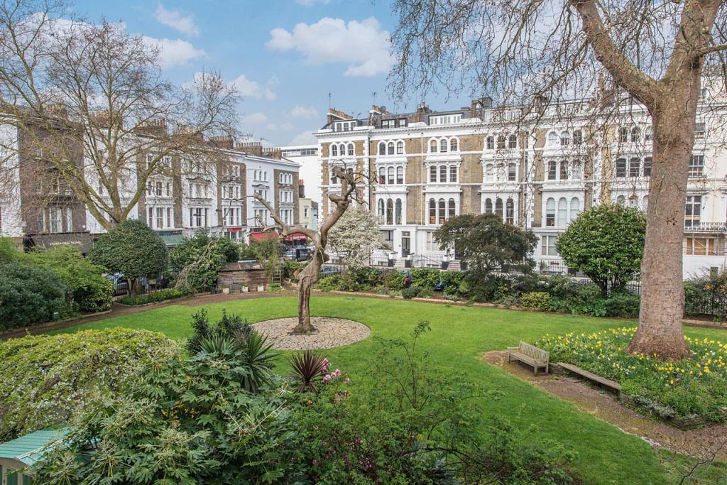 A view of Leinster Square from the gardens. This square in Westbourne, London is not to be confused with its namesake in Dublin.